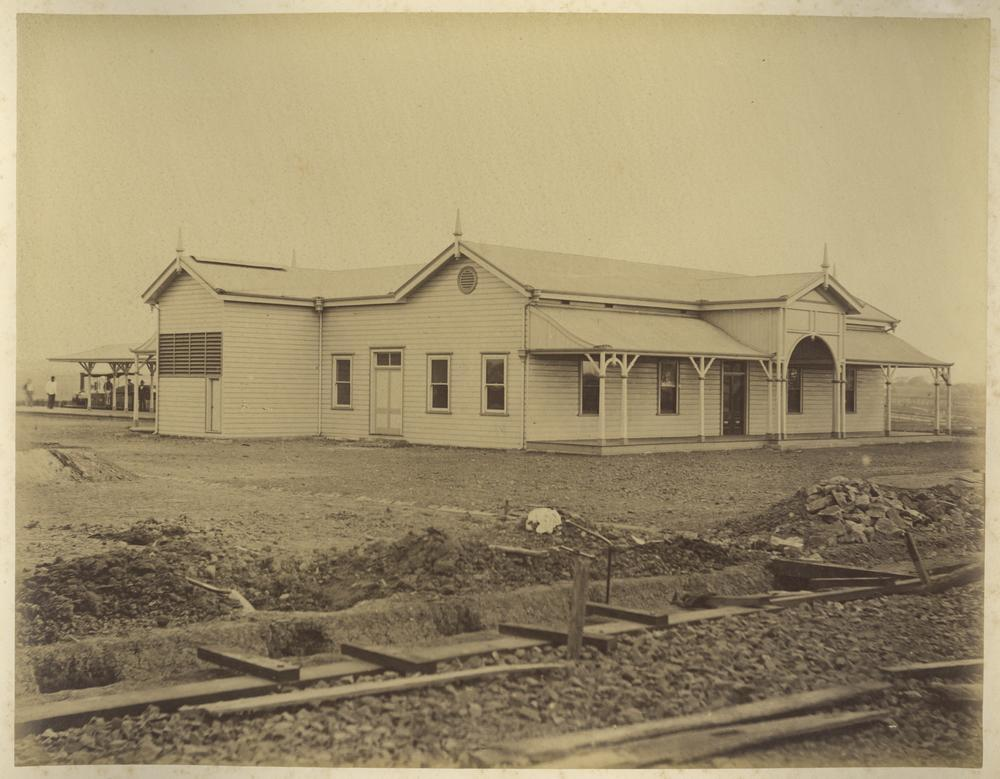 Creator: Unidentified Location: Maryborough, Queensland Description: Substantial new railway passenger station at Maryborough with an arched entry, front verandah and finials on the gables of the corrugated iron rooves. View this image at the State Library of Queensland: Information about State Library of Queensland’s collection: You are free to use this image without permission. Please attribute State Library of Queensland.